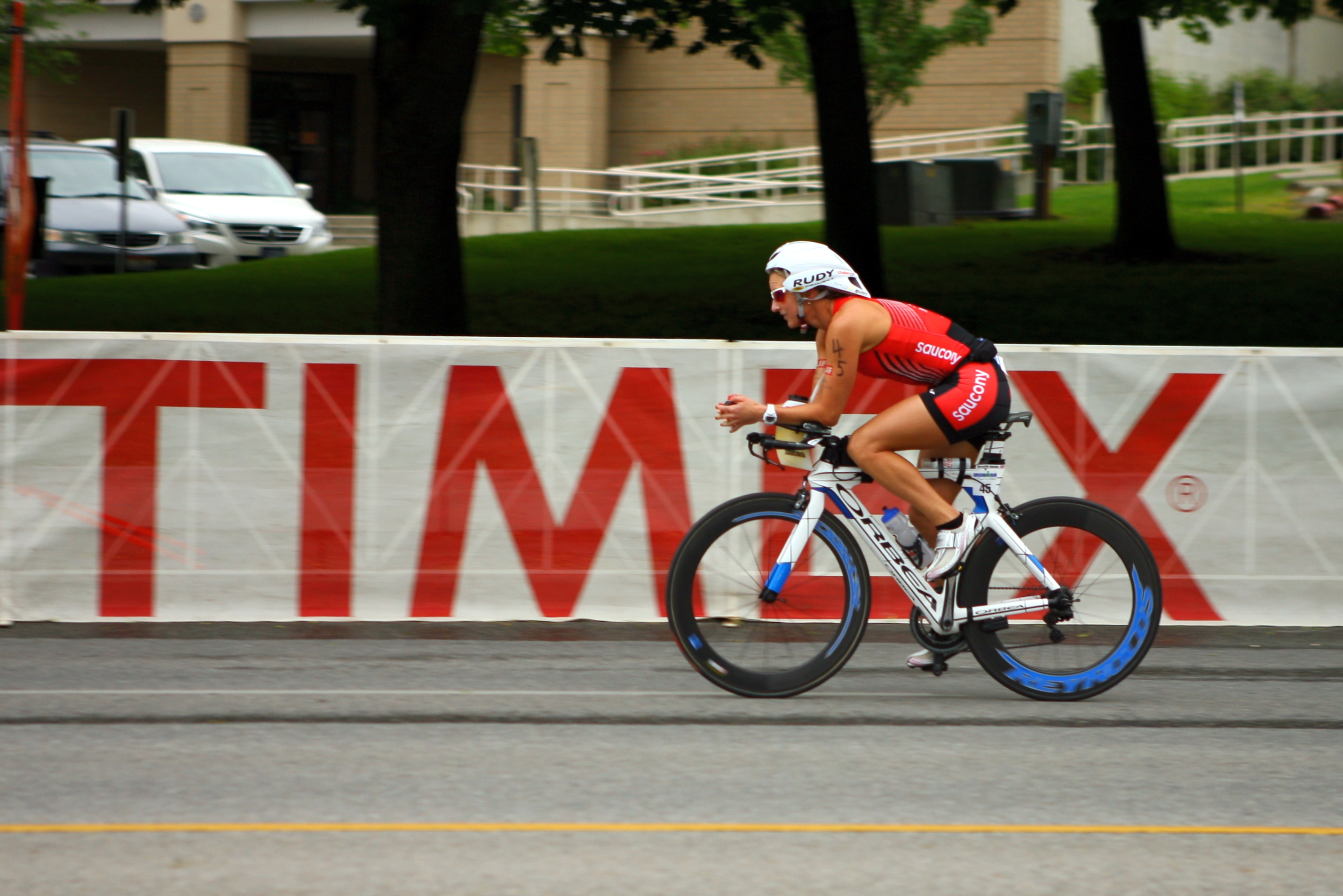 Meredith Kessler of the U.S. took her third Ironman victory with a wire-to-wire performance that combined all three race-bests – a 51:28 swim, 5:13:16 bike split on Coeur d’Alene’s rugged hills, and a 3:12:04 marathon -- to wrap up the race with plenty of time to spare. Kessler’s 9:21:44 clocking was the third-fastest women’s time in the race’s 9-year history – behind only Julie Dibens’ 9:16:40 winning time last year and Linsey Corbin’s 9:17:54 winning mark in 2010. Kessler’s Coeur d’Alene victory was her remarkable fourth in 2012, coming after wins at Ironman New Zealand and Ironman St. George and at Eagleman 70.3